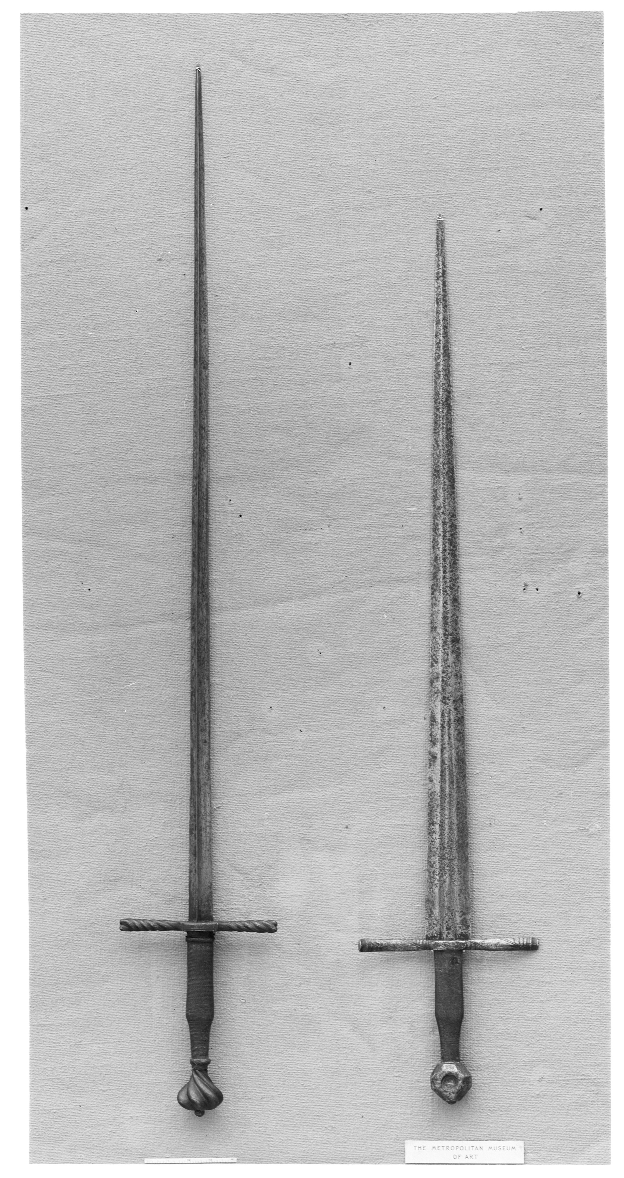 German or Swiss; Sword (Estoc); Swords